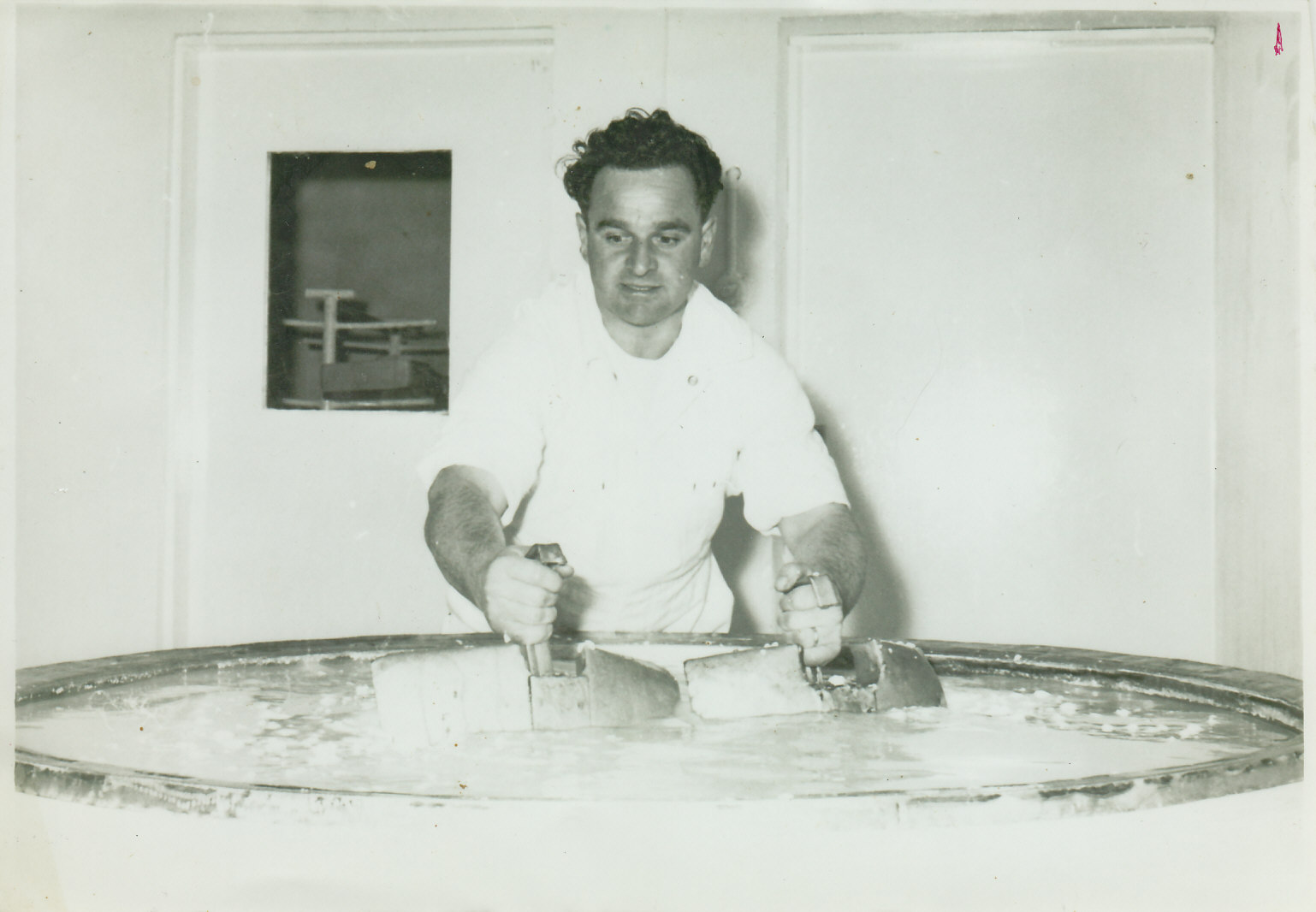 Milan Vyhnalek at work